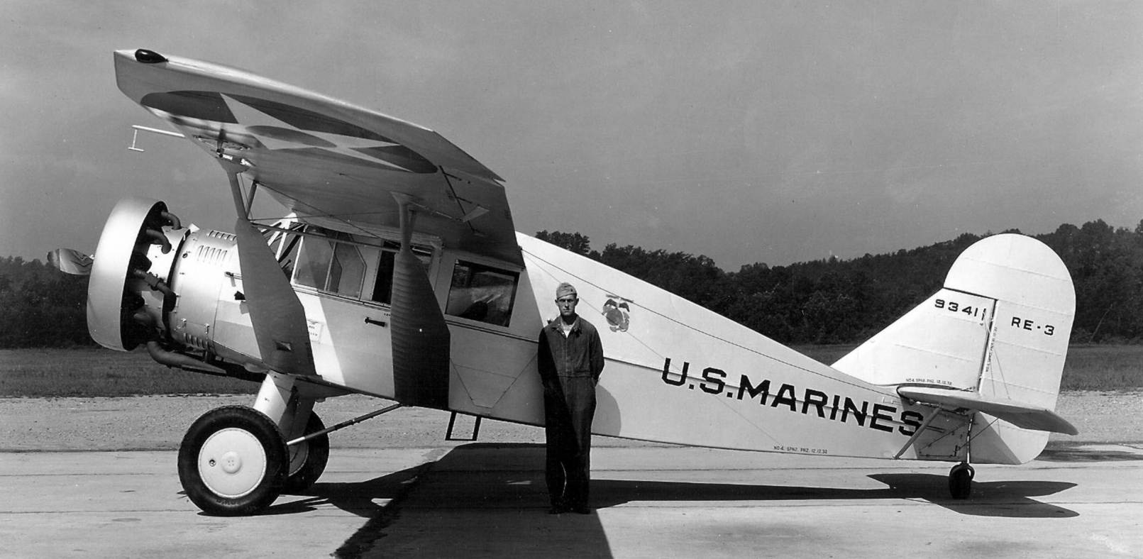 A U.S. Marine Corps Bellanca XRE-3 Skyrocket (BuNo 9341). This aircraft was used as an air ambulance and could carry two stretchers and was acquired in 1932.